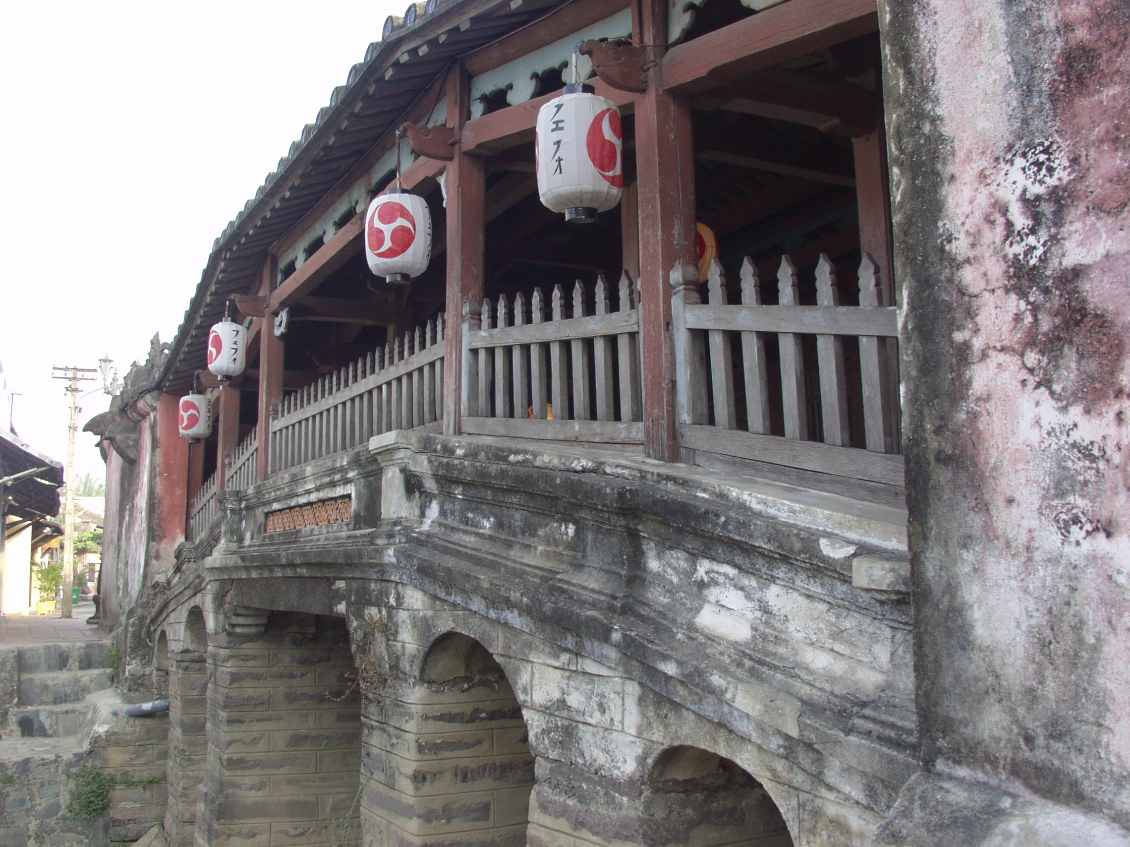 The Japanese Bridge in Hoi-an.